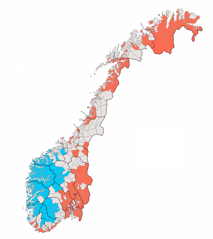 A map of the official language forms (målform) of Norwegian municipalities as of 2007. bokmål nynorsk neutral